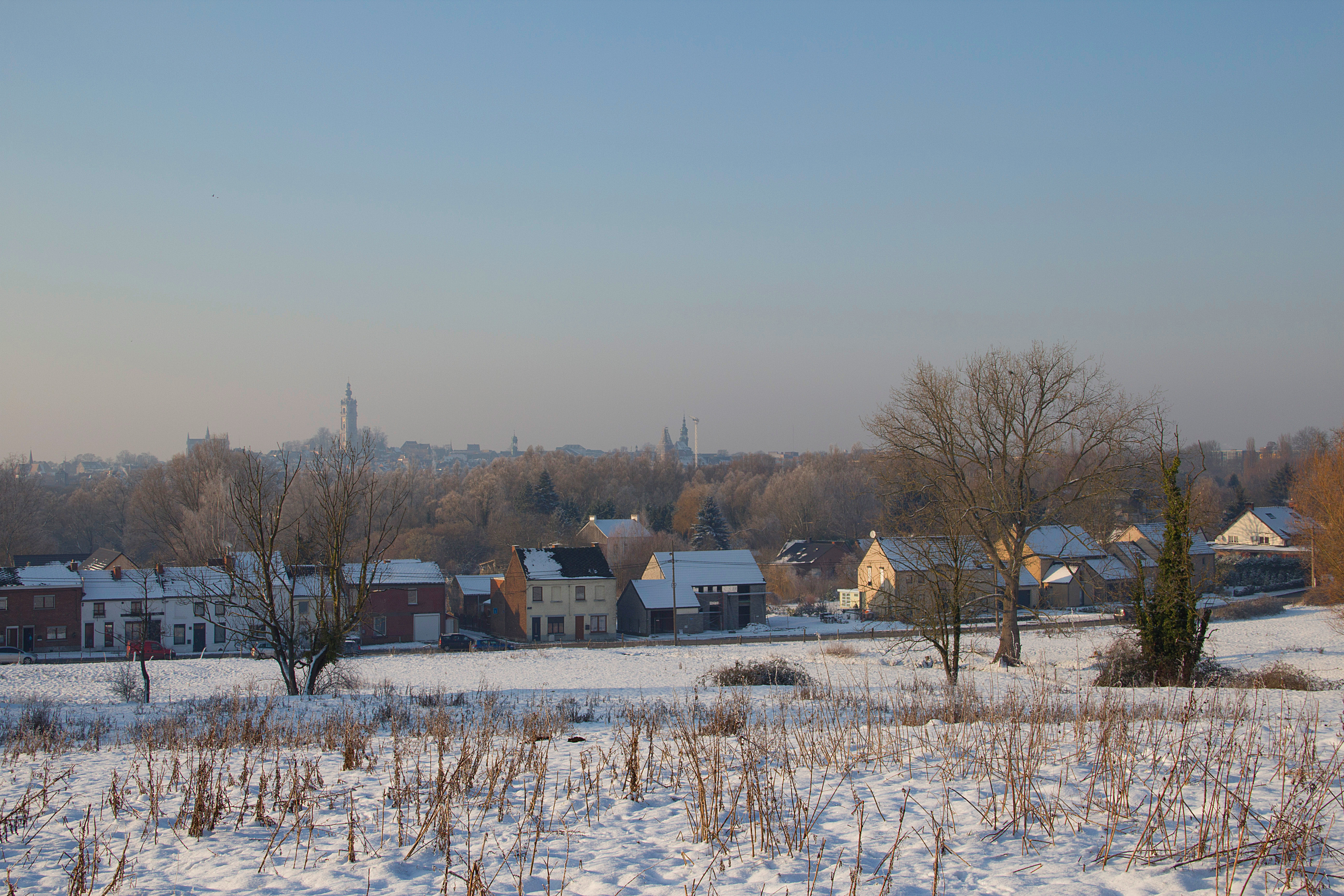 Mons (Belgium), panorama of the old city, the « rues Léon Save » and « Maurice Flament » seen in the vicinity of the « chemin de l’Hermitage ».